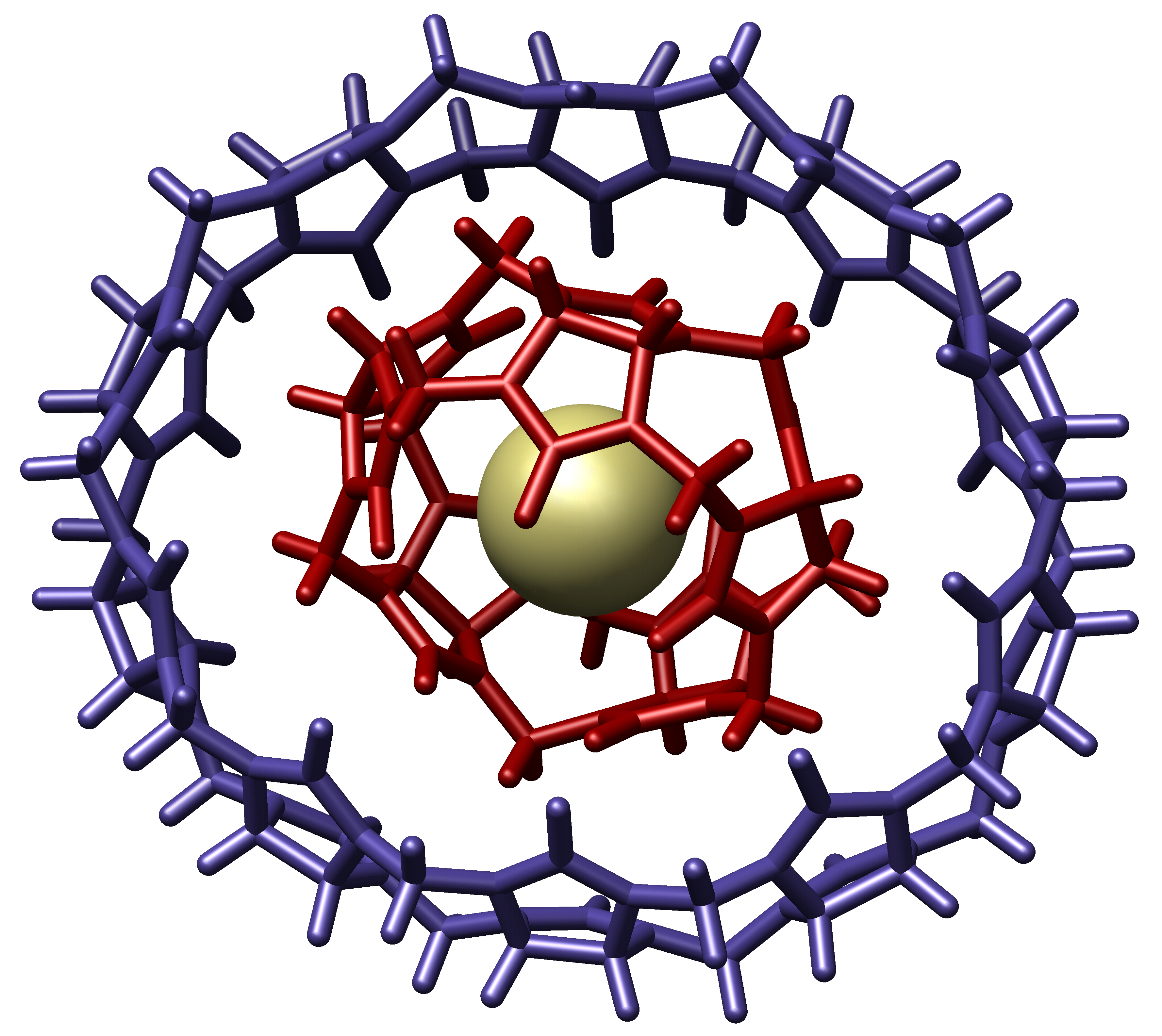 This is a picture generated from crystal structure data reported by Anthony I. Day, Rodney J. Blanch, Alan P. Arnold, Susan Lorenzo, Gareth R. Lewis, and Ian Dance in Angewandte Chemie International Edition, Year 2002, Volume 41, Pages 275-277 It shows a chlorine anion bound within a cucurbit[5]uril that both are bound within cucurbit[10]uril. The complex was described as a molecular gyroscope. It was made by myself and is free to be use by all.